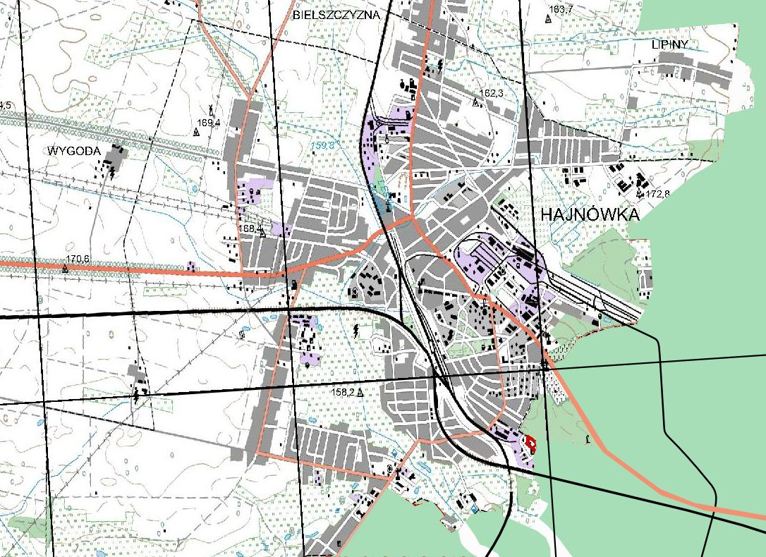 city plan of Hajnówka